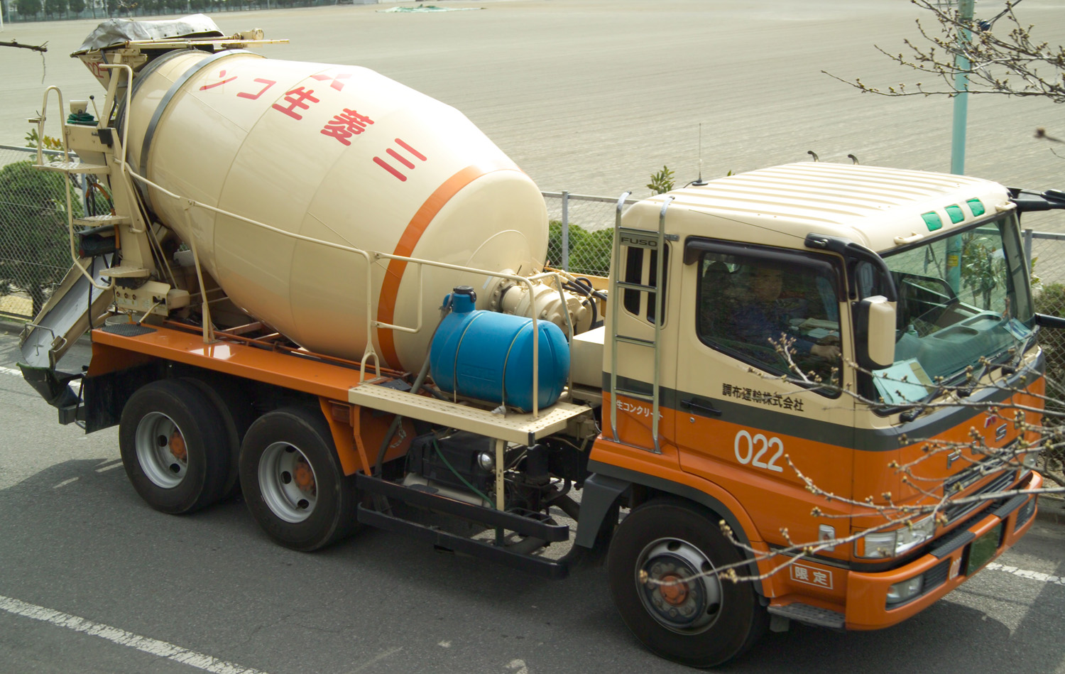 This cement mixer delivers concrete in Japan.